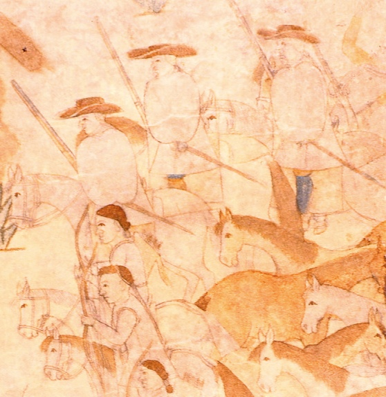 Detail of hide painting sent to Switzerland from Sonora, Mexico in 1758 by Philipp Segesser (1 September 1689 - 28 September 1762). Assumed to represent the 1720 defeat of the Villasur expedition. Detail with dragones de cuera and indios exploradores.